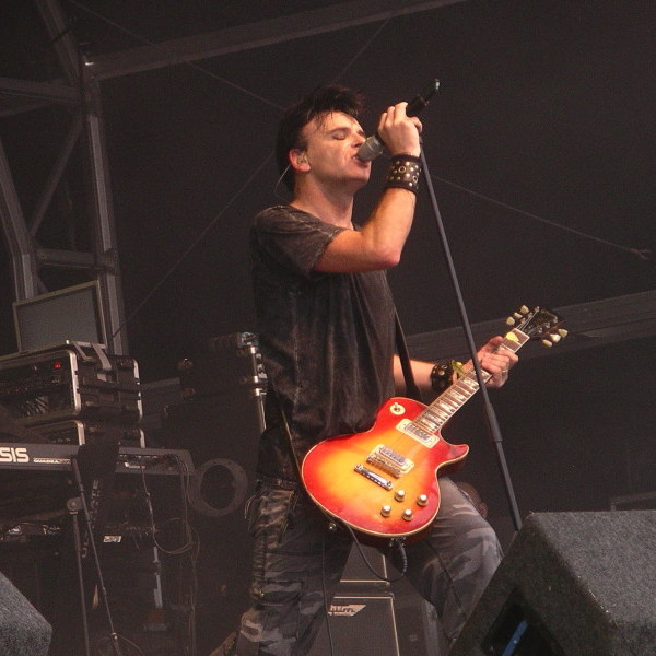 Gary Numan playing live at Bestival on September 6th 2008